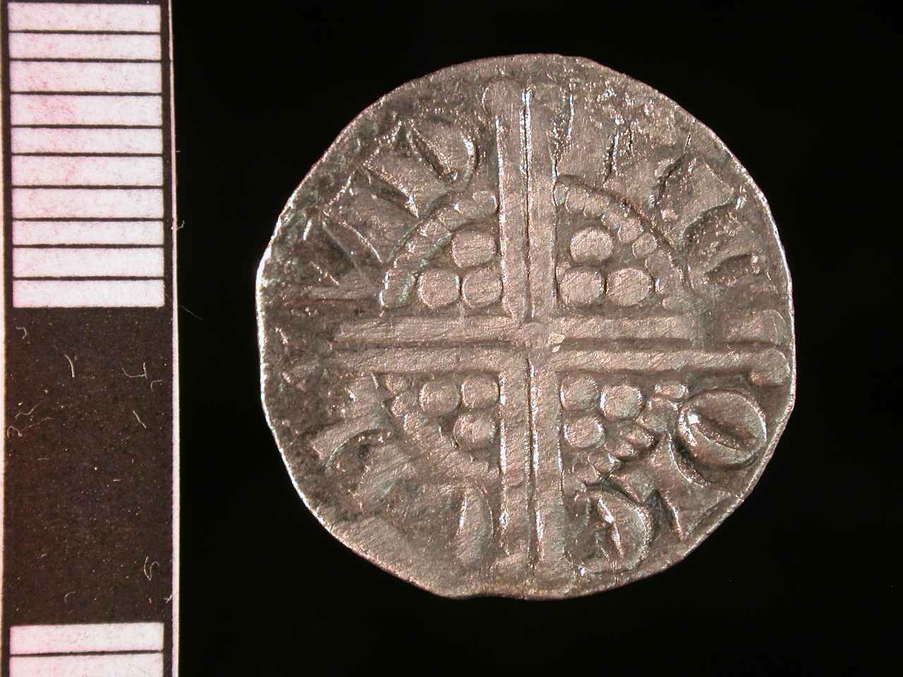 Silver voided long cross penny of Henry III (1216-1272), Long cross coinage (1247-1272), Class Vb (1250-1256), moneyer Nicole, London mint, Spink 1368, North 992